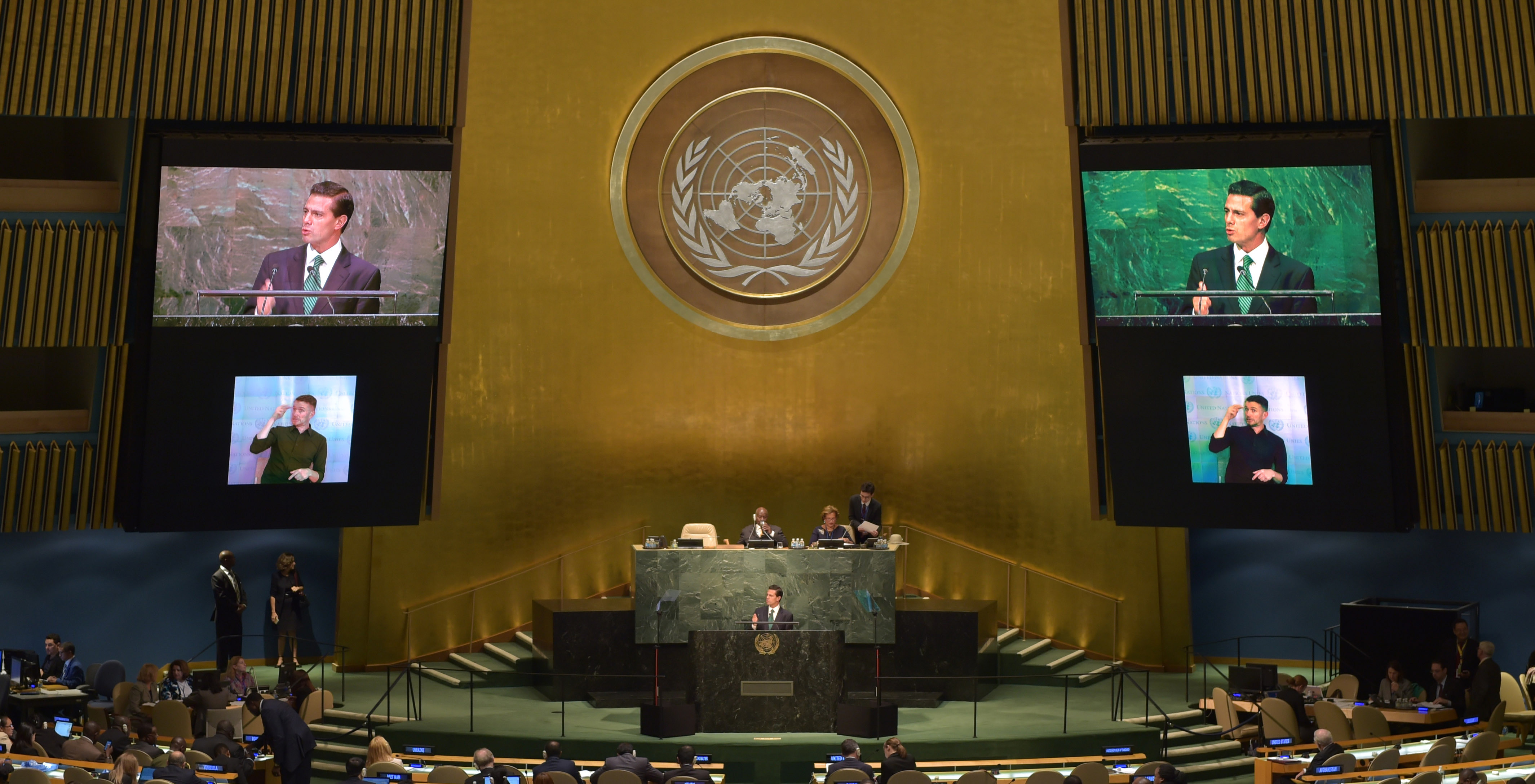 Intervención del Lic. Enrique Peña Nieto en la Sesión Plenaria de la Cumbre para la Adopción de la Agenda 2030. Nueva York. 27 de septiembre de 2015.